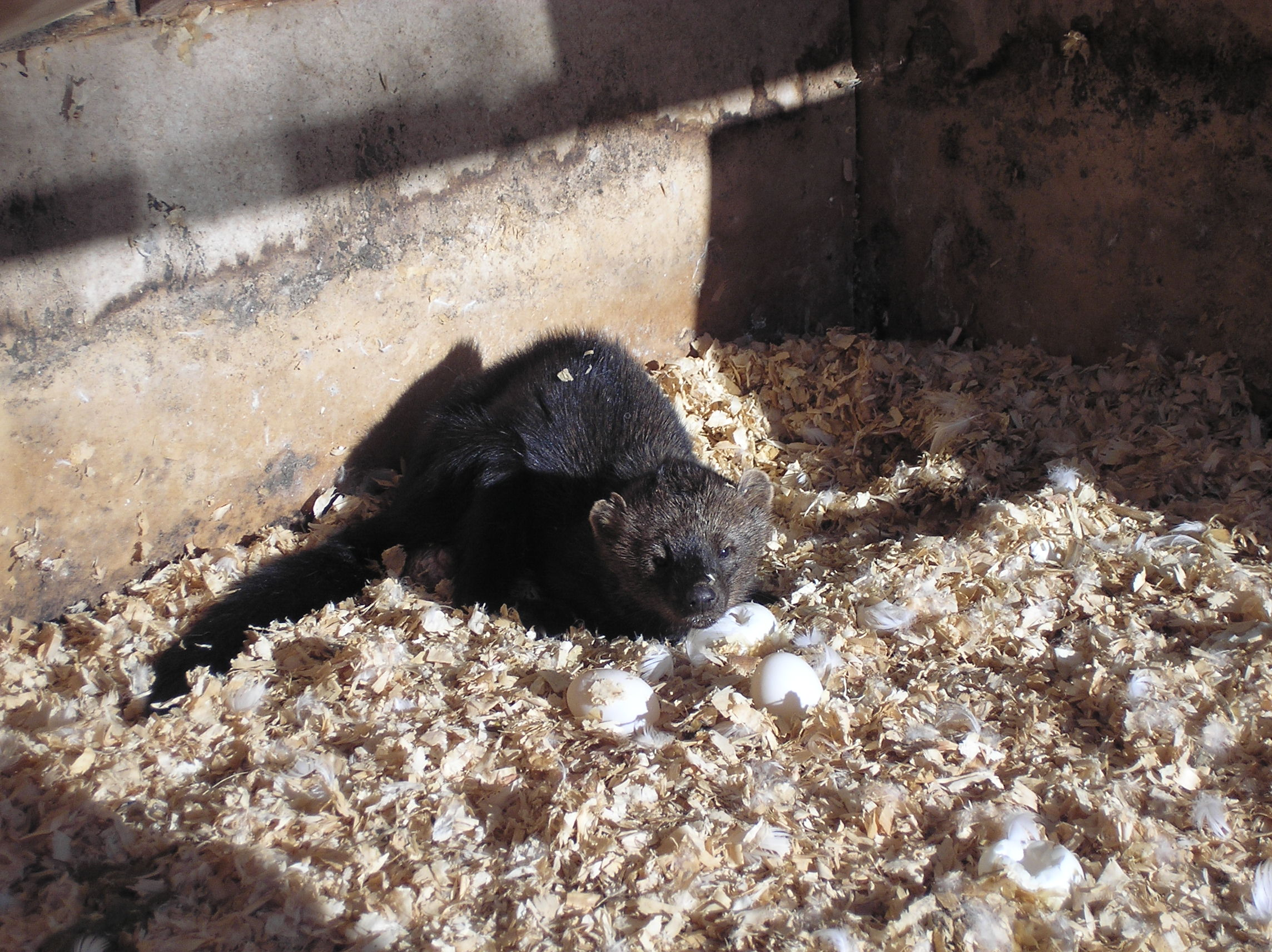 Fisher in Duck House - Callander, Ontario, Canada